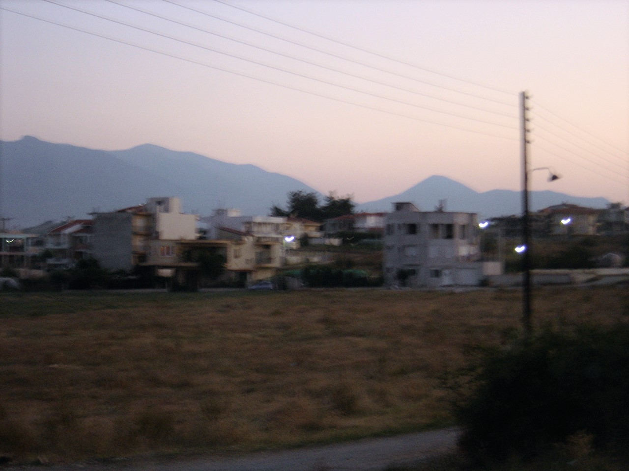 Prosilion, Katerini, Greece, view